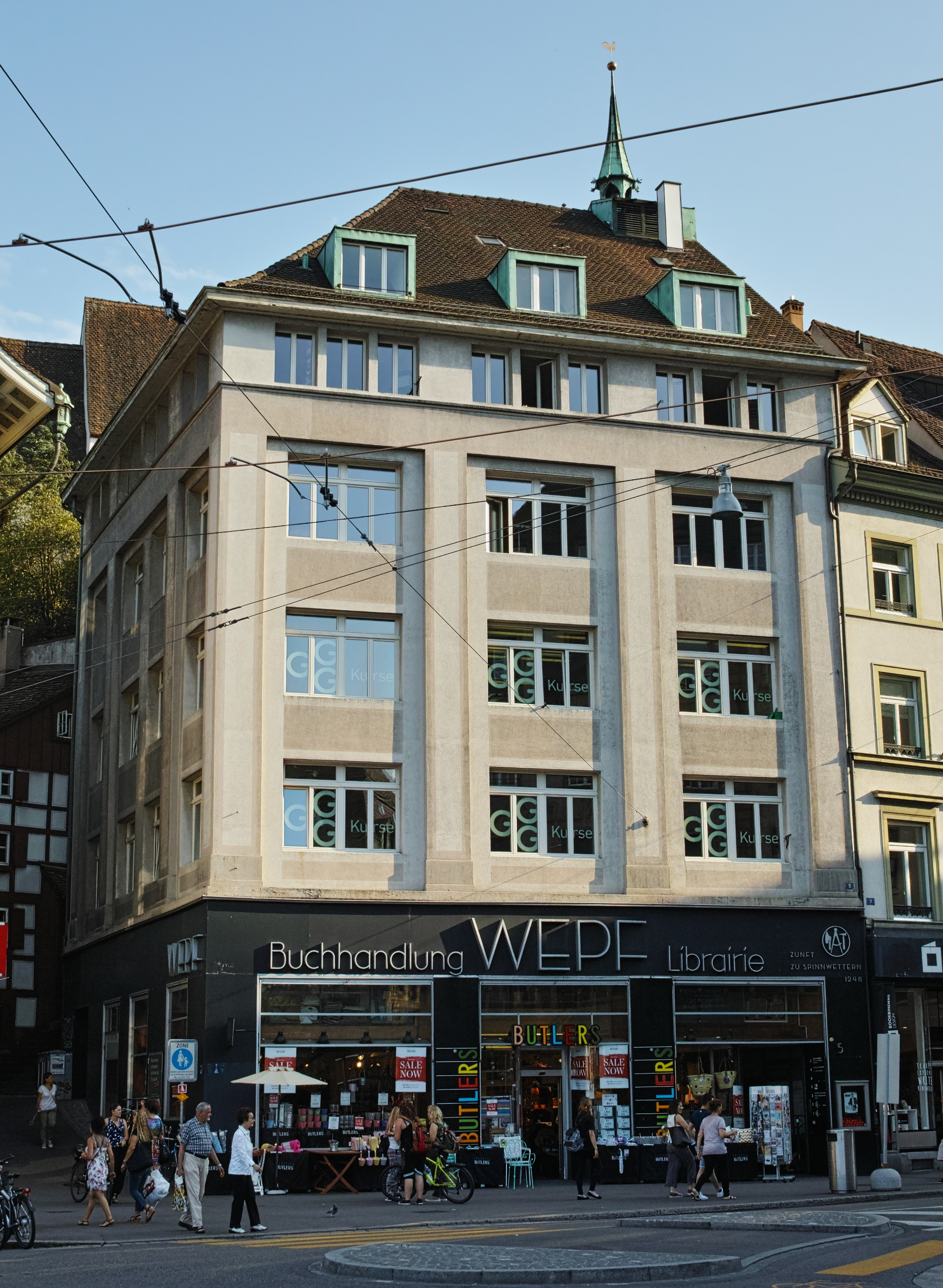 Basel, Eisengasse 5. Building of the "Spinnwettern" guild and former bookstore Wepf.